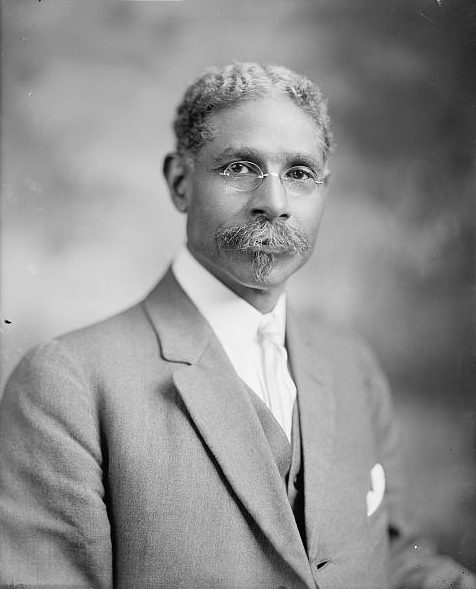 This is a cropped version of an image from the Library of Congress Prints and Photographs Division of Dr. George Washington Buckner (1855-1943), United States Minister and Consul General to Liberia, 1913-1915. According to the LOC notes, there are "[n]o known restrictions on publication."